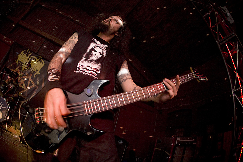 Christ Agony